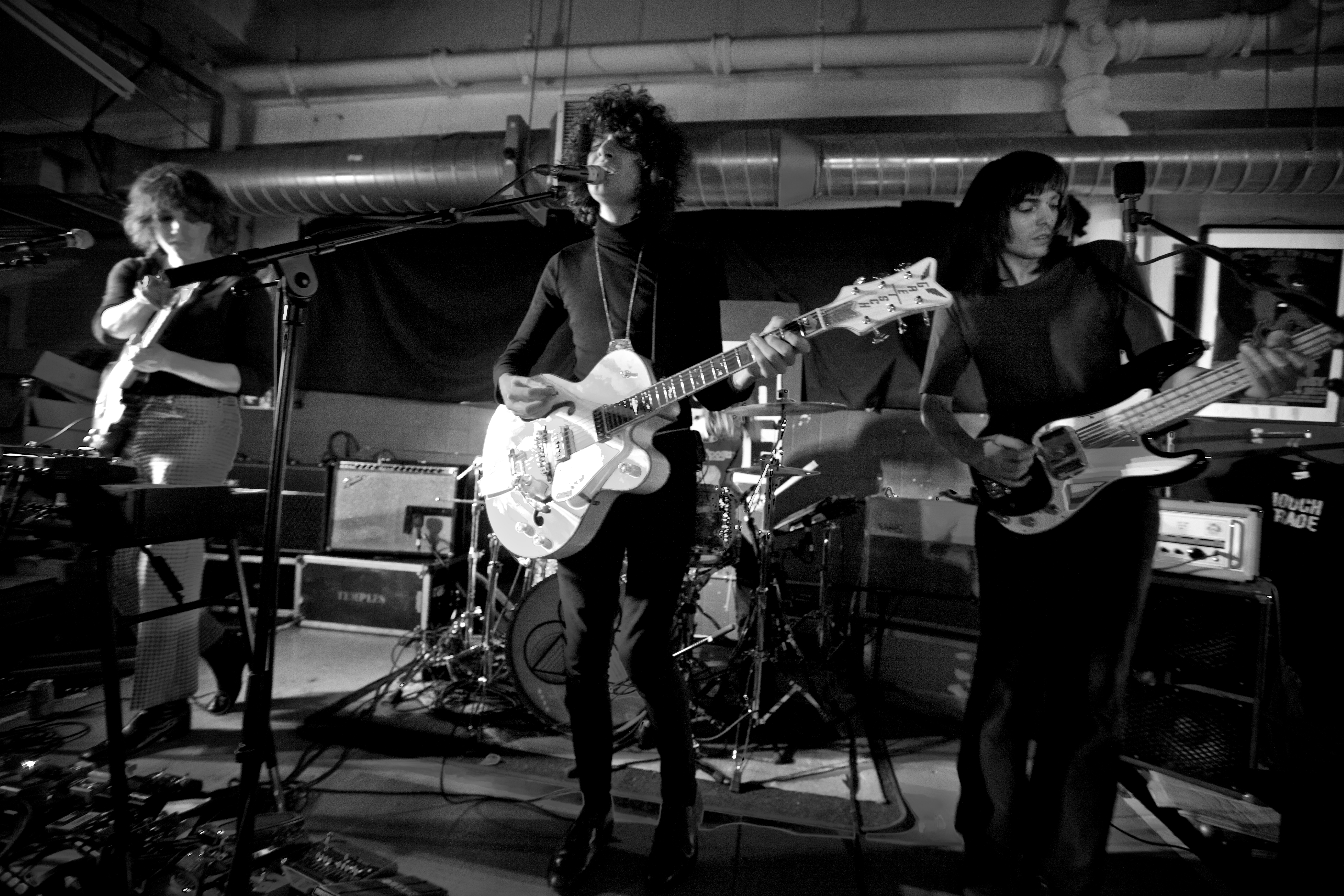 Temples performing at Rough Trade East, 2nd December 2014